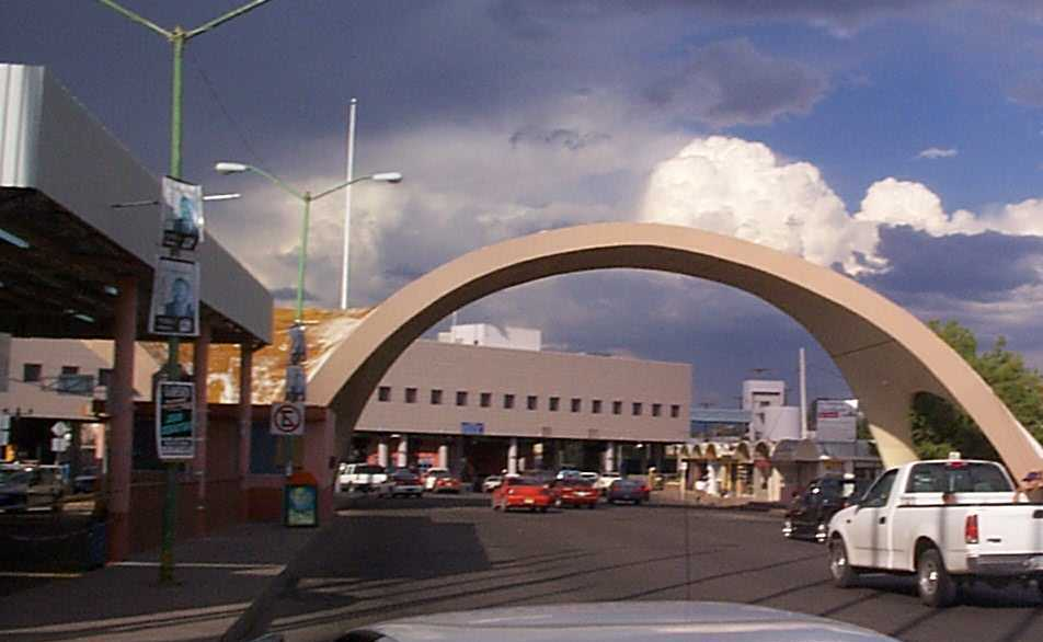 Nogales Grand Avenue Port of Entry as seen from Mexico, October 2000